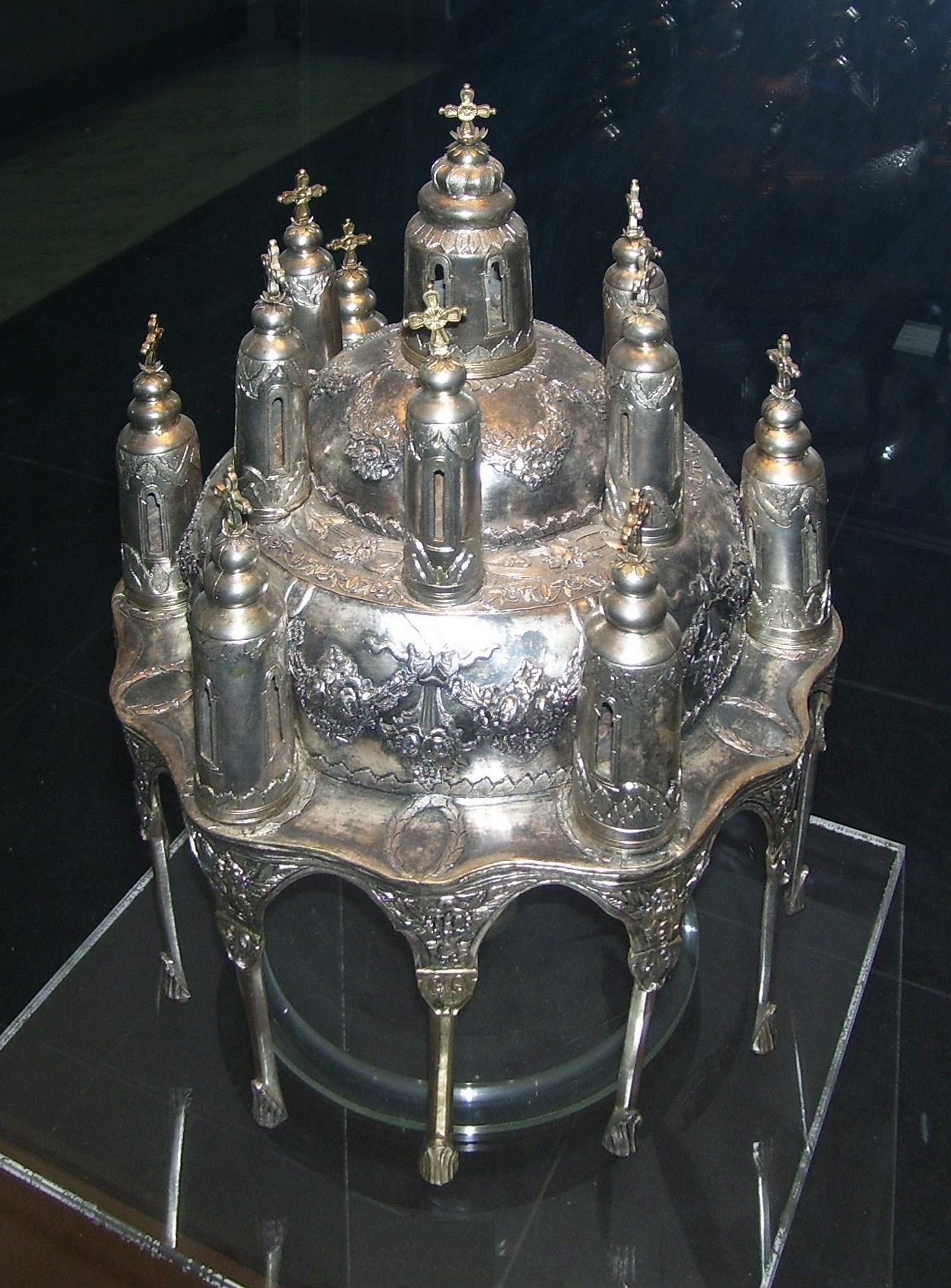 Greek silver artophorion originated from the Panagia Ekosifinissa Monastery (Greece) (Kushnitsa Monastery), captured by the Bulgarian occupation army during the Second Bulgarian Occupation of Eastern Macedonia (1916-1918, World War I) and now on display at the National Historical Museum of Bulgaria, 18 C, NHMB